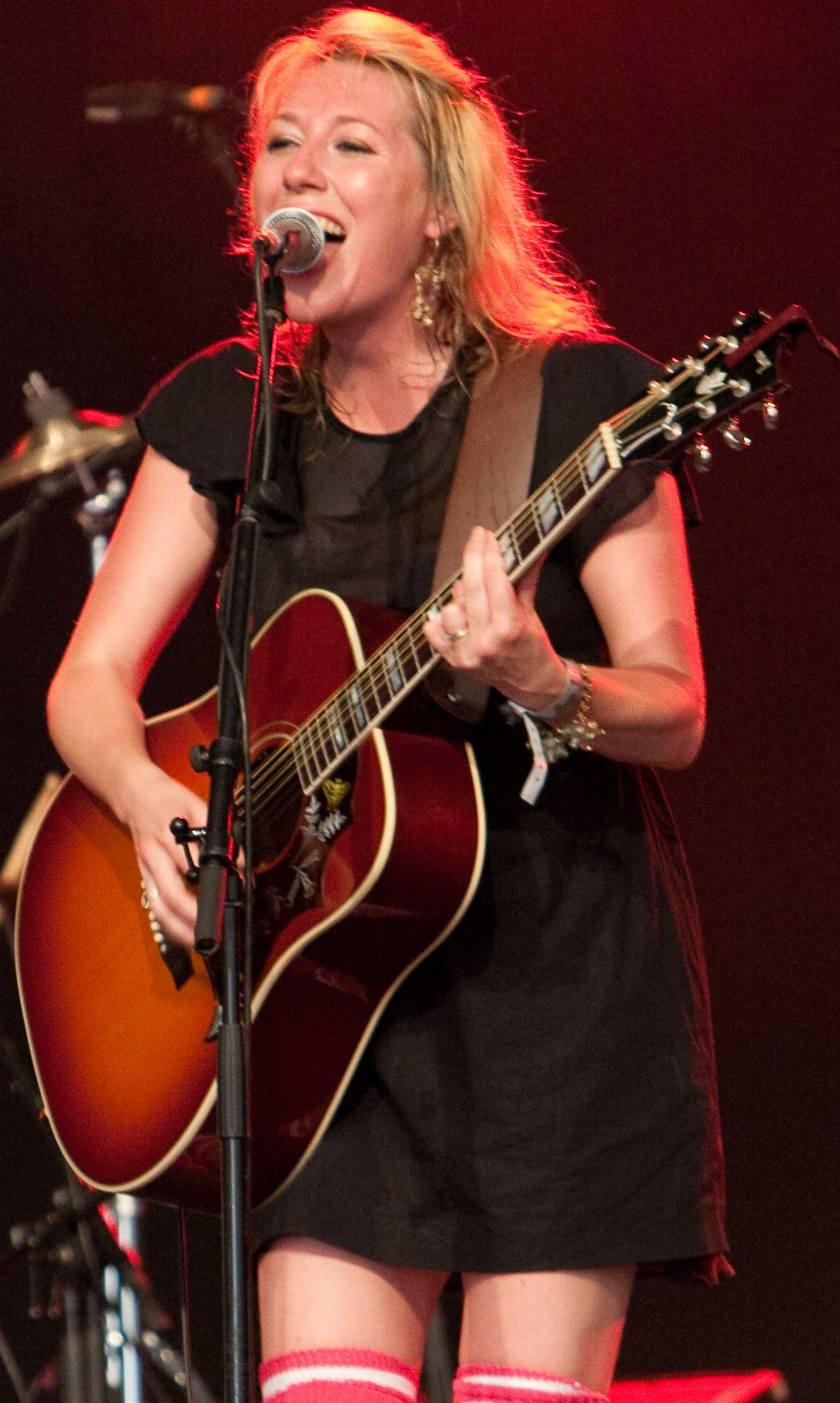 Martha Wainwright by Yrrek-41